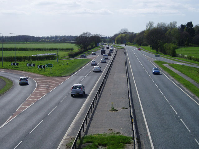 A64 near Copmanthorpe. Looking towards Leeds from the overbridge at the junction with York outer ring road